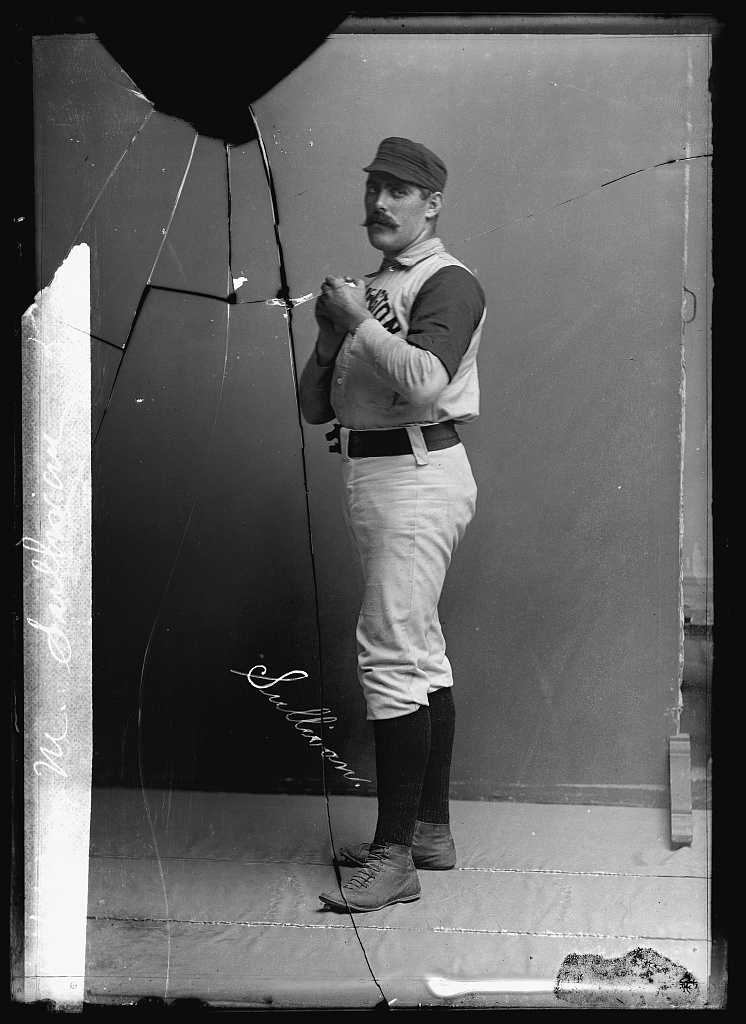 Mike Sullivan, Pitcher, in Washington Nationals Uniform taken by C. M. Bell Studio